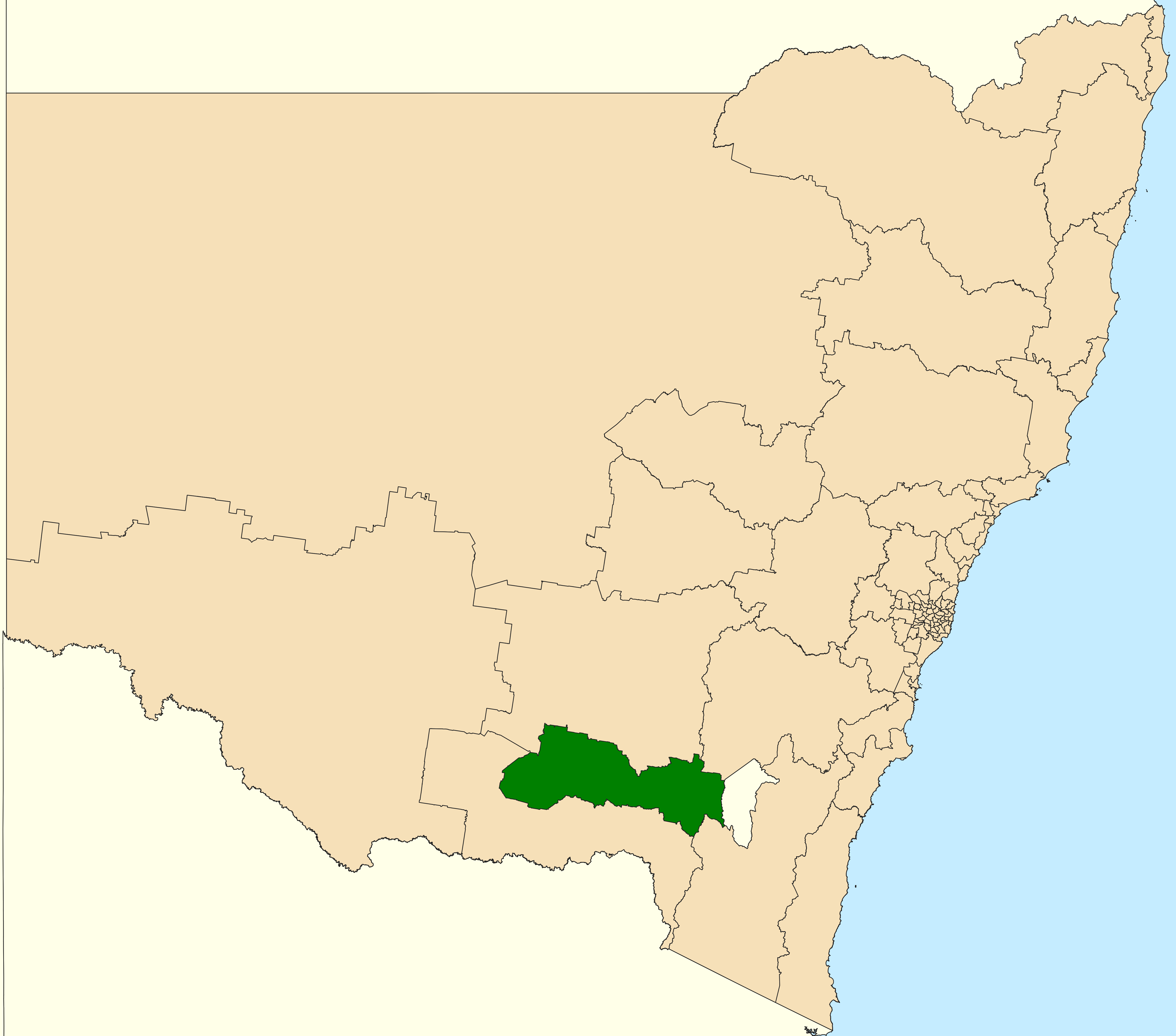 Location of the state electoral district of Wagga Wagga (dark green) in New South Wales as of the 2019 New South Wales state election. Incorporates or developed using Administrative Boundaries ©PSMA Australia Limited licensed by the Commonwealth of Australia under Creative Commons Attribution 4.0 International licence (CC BY 4.0).